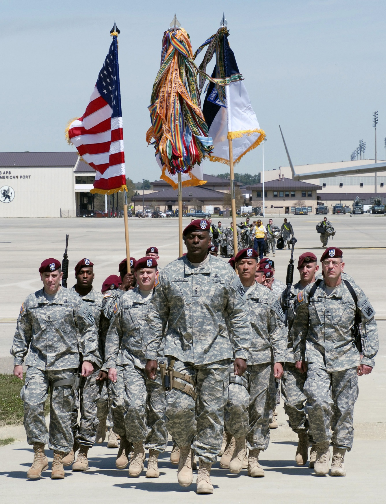 XVIII Abn. Corps headquarters April returned Fort Bragg from Iraq. April 7, 2009